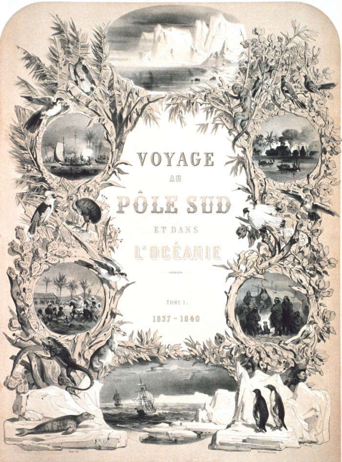 Frontispiece to: "Voyage au pole sud et dans l'Oceanie ....." by the French ships ASTROLABE and ZELEE under the command of Dumont D'Urville. Library Call Number Q115 .D9 1842, pt. 1, Atlas, t.1.